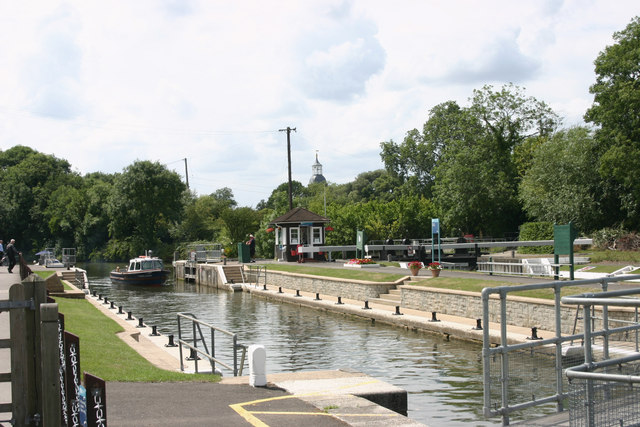 Sunbury Lock Constructed in 1927, this is the newer of the two locks that comprise Sunbury Lock. The rest of Sunbury Lock was built in the mid-1850s to replace a previous lock situated farther upstream.